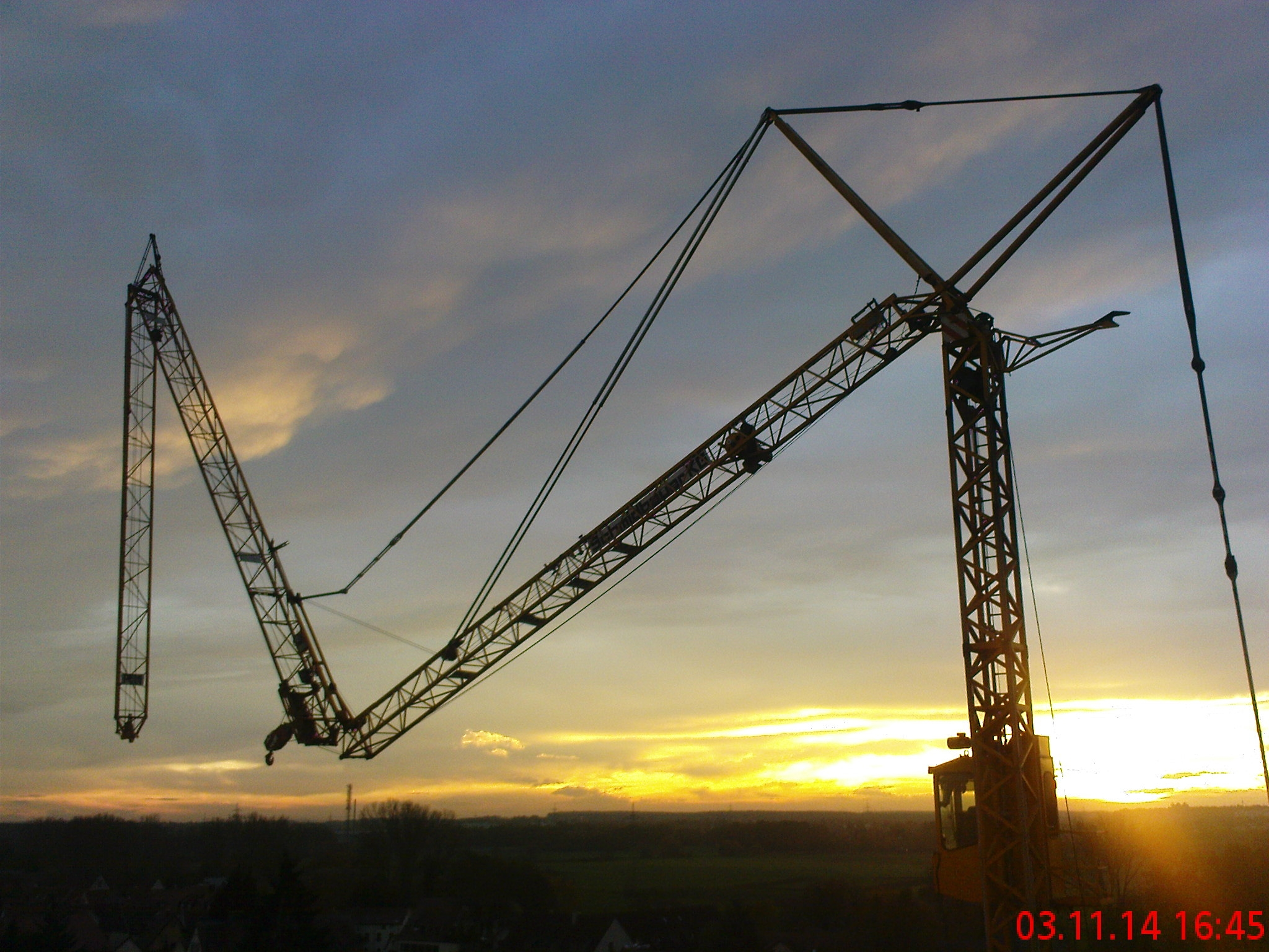 A mobile crane folds itself up at Erlangen, Germany.